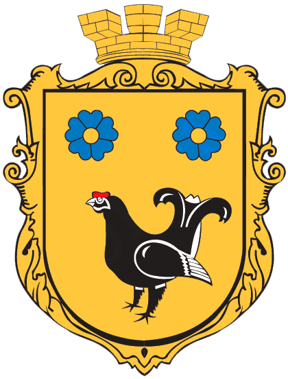 Coat of arms of Starovyzhivskyj district (Ukraine)